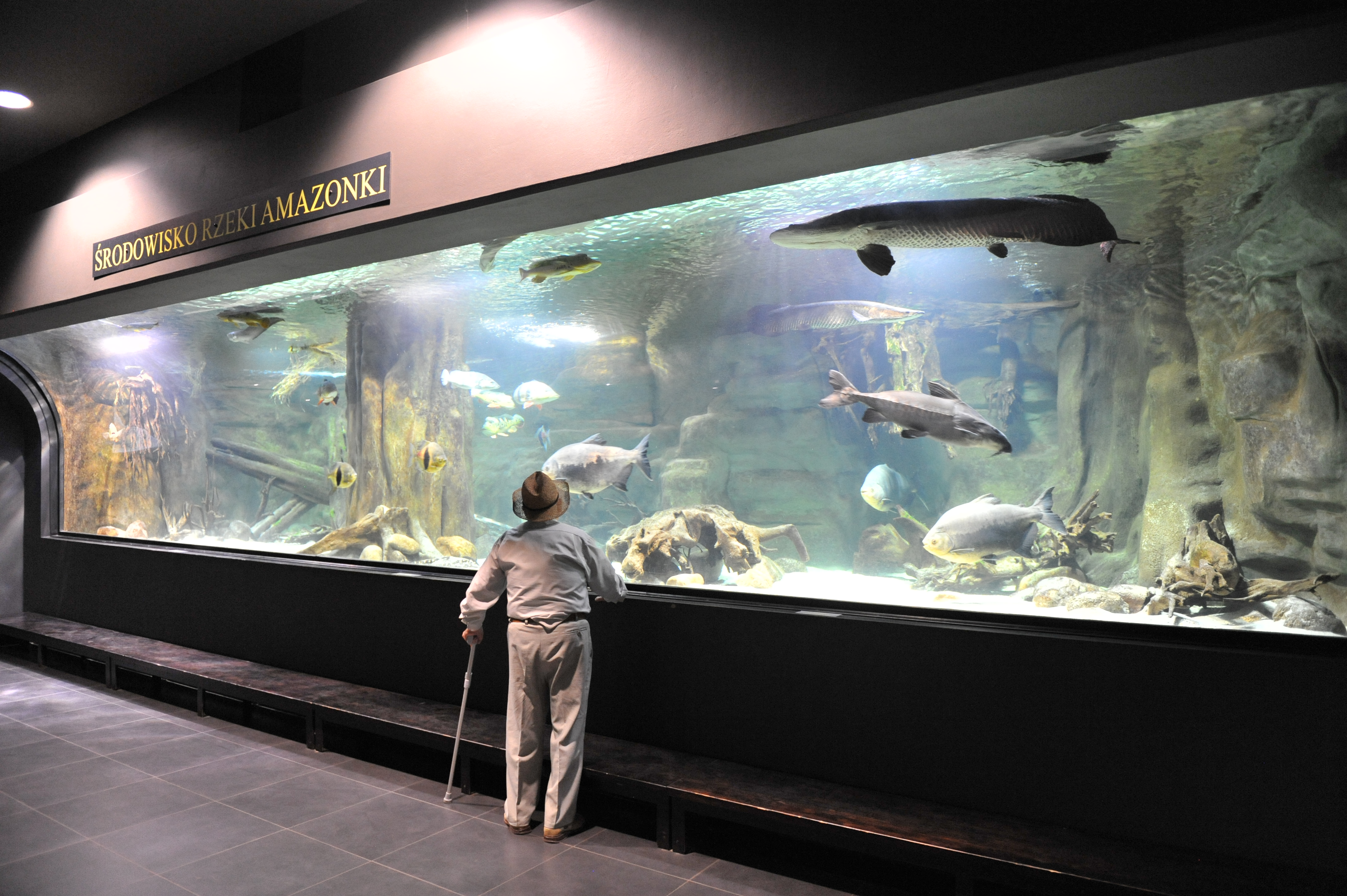 The Municipal Palm House in Gliwice - Aquapark Pavilion - The Amazon River Environment. (length 10.43 m, height 2.40 m, capacity 57 000 l). In front of the tank, the author of the Palm House, arch. Andrzej Musialik.